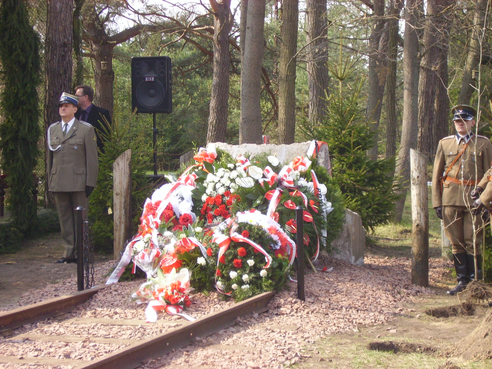 Osowiec-Twierdza. Guard of honor before the Monument to Katyn massacre